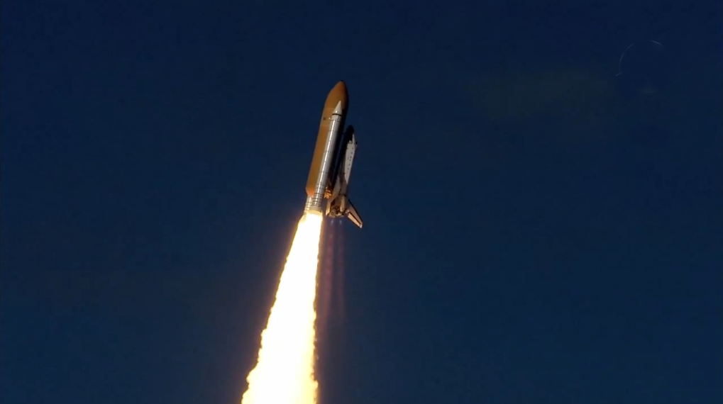 Space Shuttle Atlantis during its roll maneuver shortly after launch during mission STS-129.